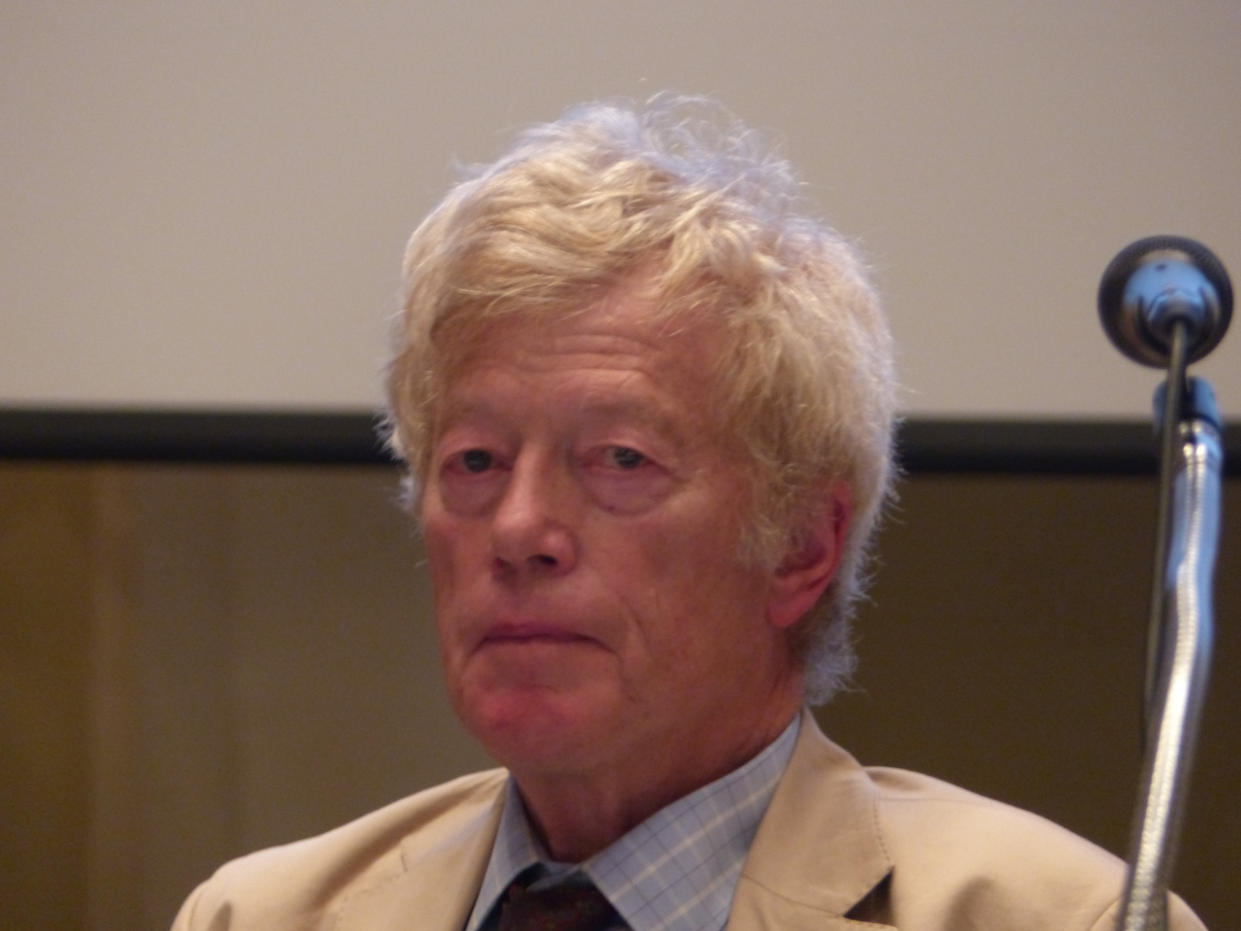 Sir Roger Scruton gave a lecture in Budapest: Europe and the Conservative Cause. Taken on the 19th of September, 2016. Centre for Humanities and Social Sciences